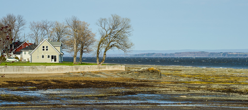 The Lafleur River flowing into the St. Lawrence River.